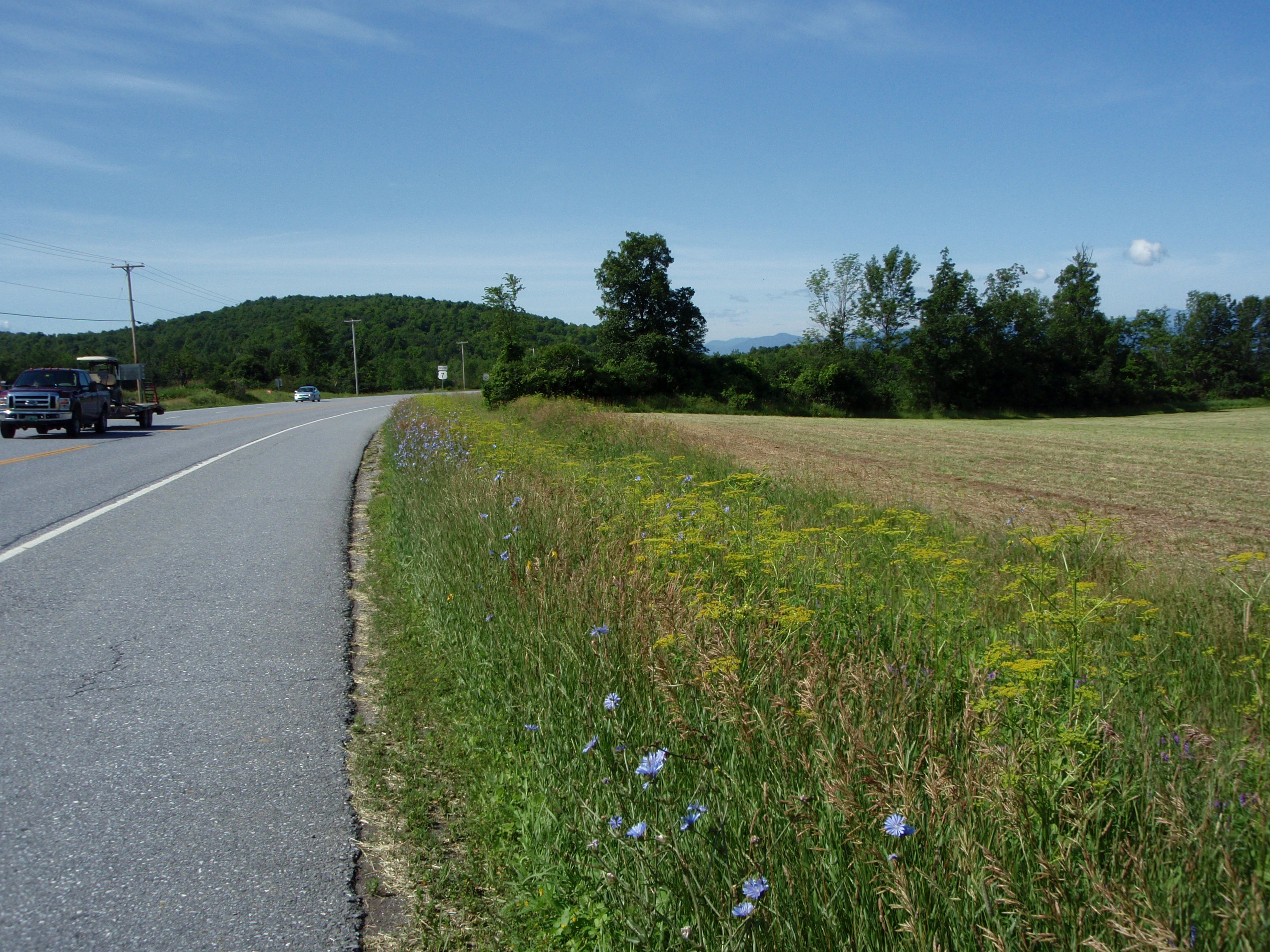 Route 7, south of Burlington, Vermont.